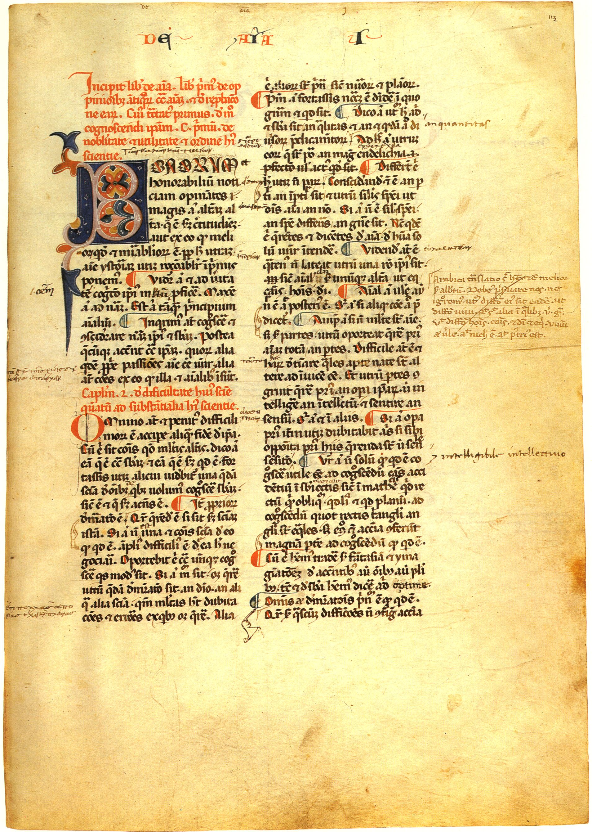 Aristotle, De anima in the Latin translation of William of Moerbeke, in ms. Biblioteca Apostolica Vaticana, Vaticanus Palatinus lat. 1033, fol. 113r.